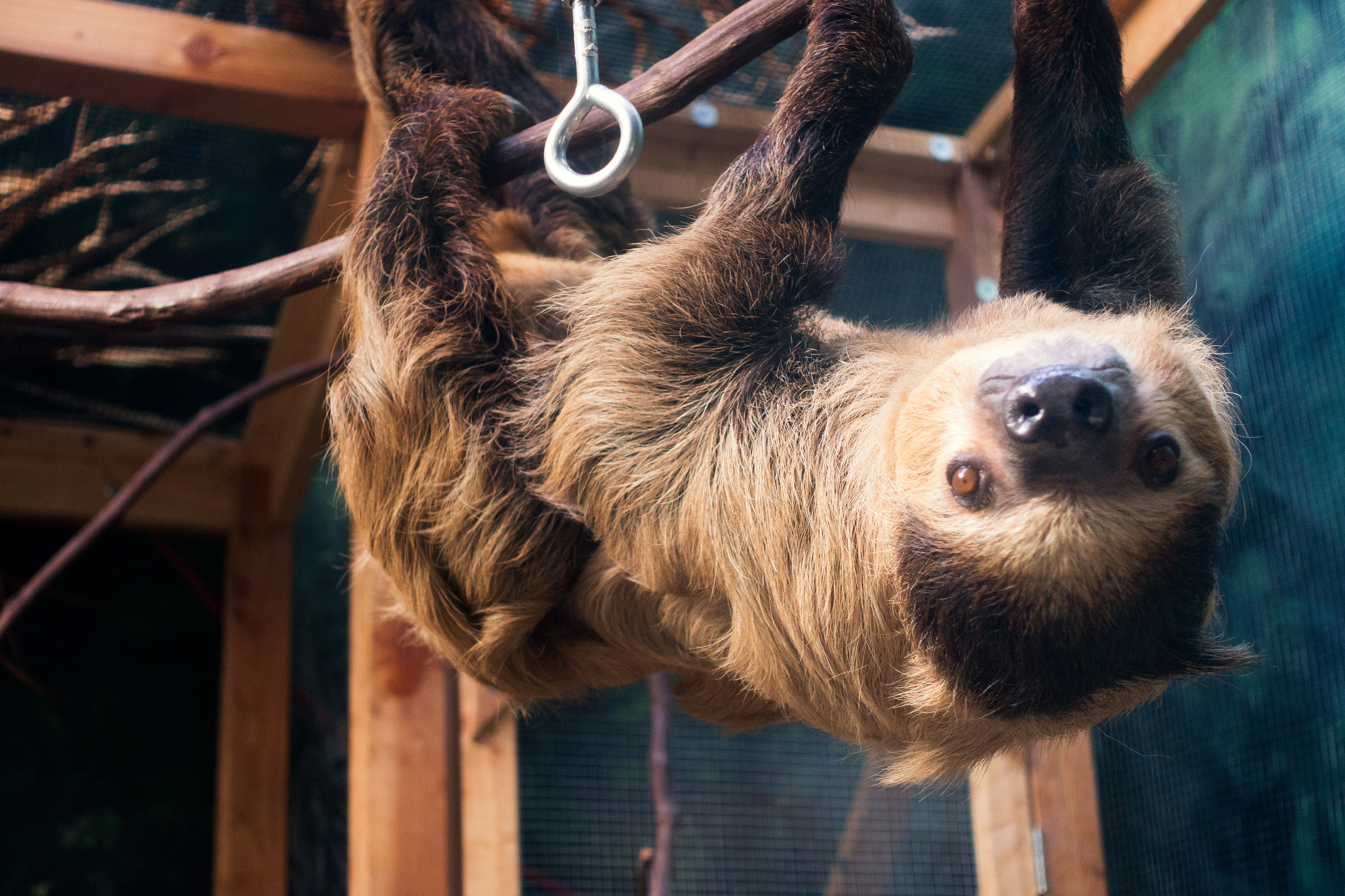 Curious Sloth